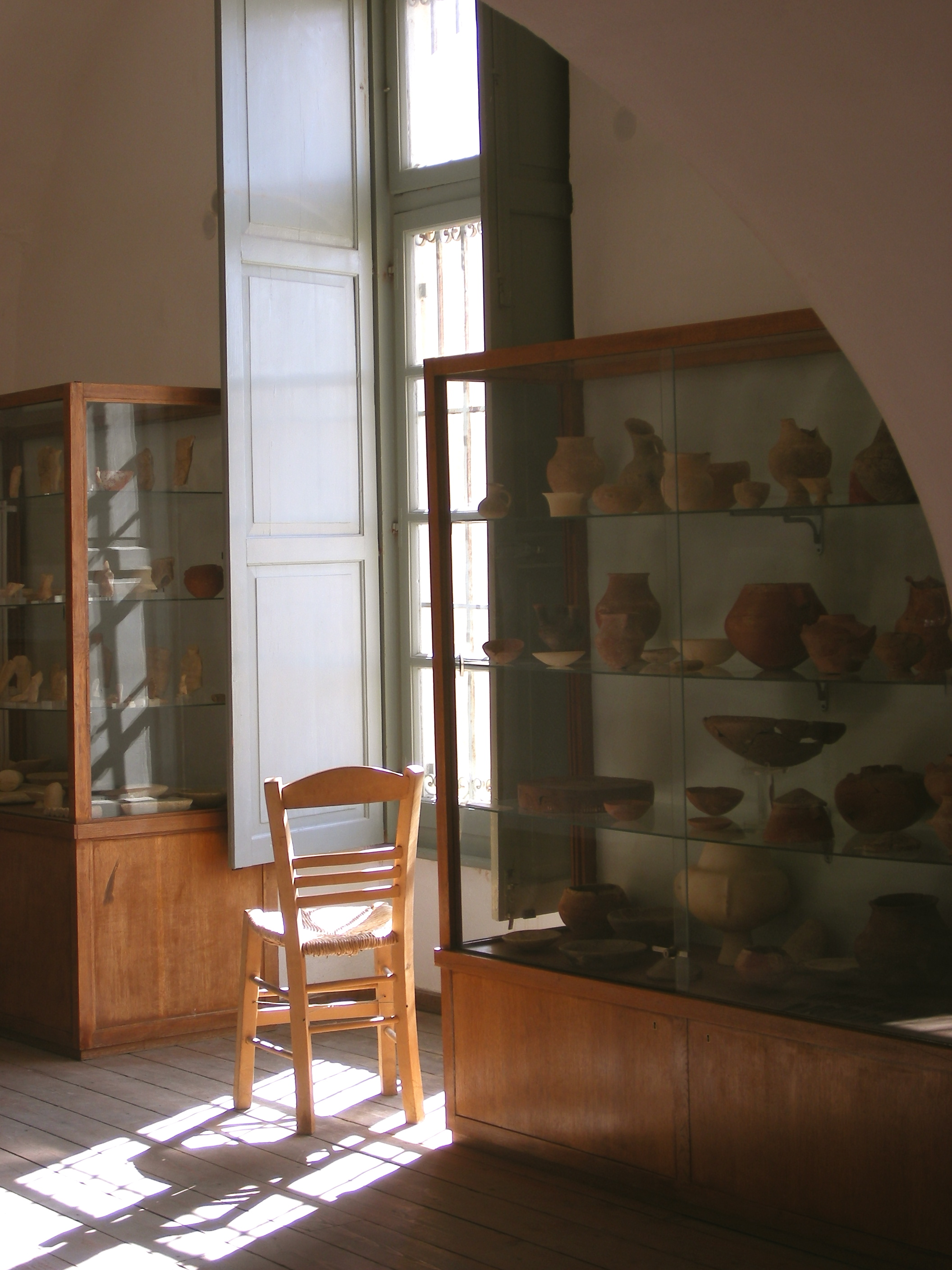 Cycladic civilisation, Naxos Museum, Cases 10 and 11.